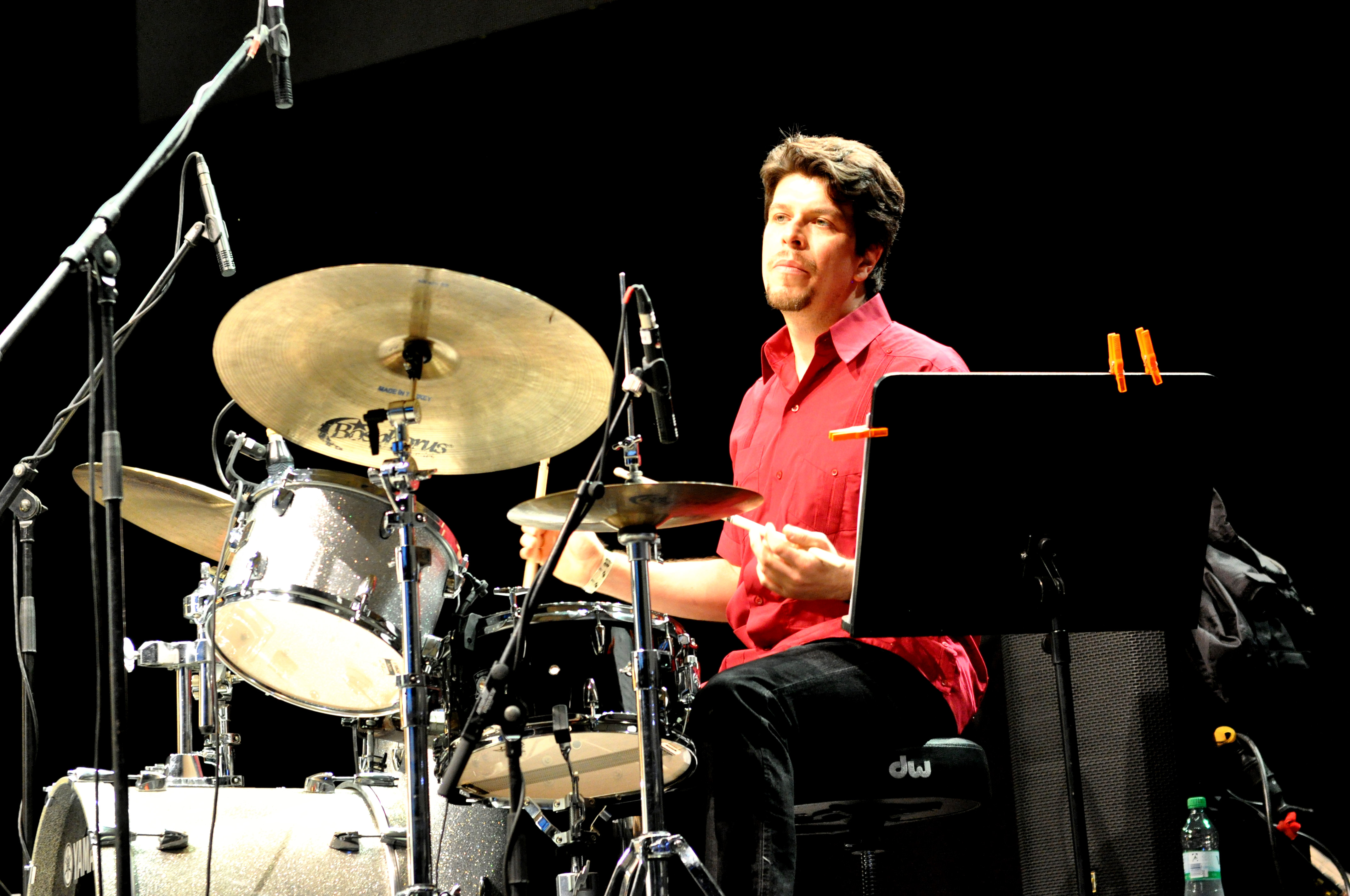 Trio Corrente feat. Paquito D'Rivera (BRA/CUB), World Music Festival Horizonte 2015, Ehrenbreitstein Fortress, Koblenz, Rhineland-Palatinate, Germany Festivalsommer This photo was created with the support of donations to Wikimedia Deutschland in the context of the CPB project "Festival Summer".